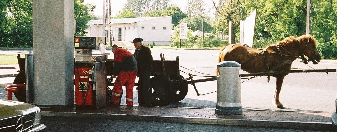 one-horse wagon on the fuel station (a farmer buying fuel for his machines)